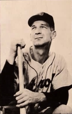 Detroit Tigers outfielder Pat Mullin in 1953.